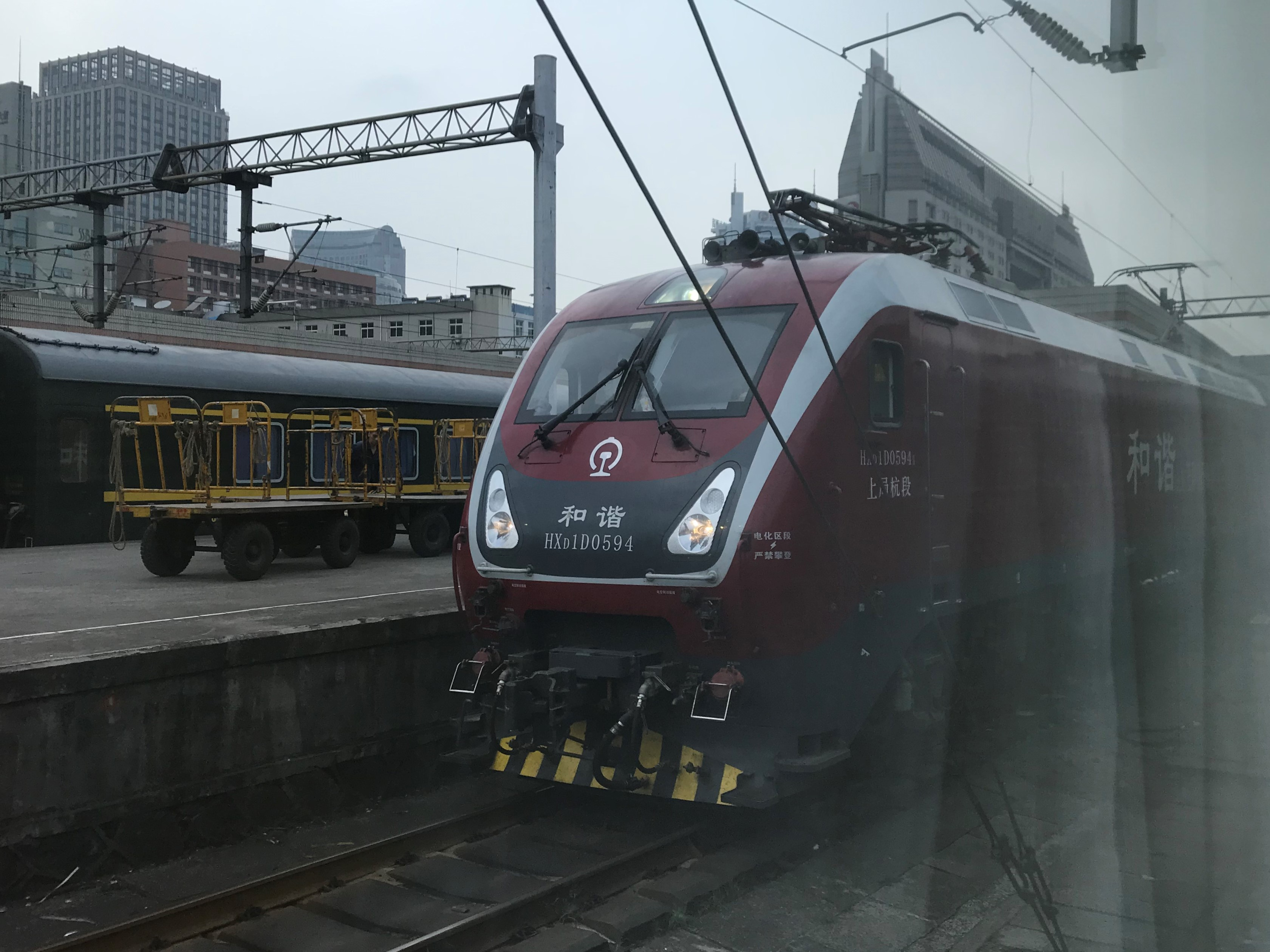 When T7785 just departed